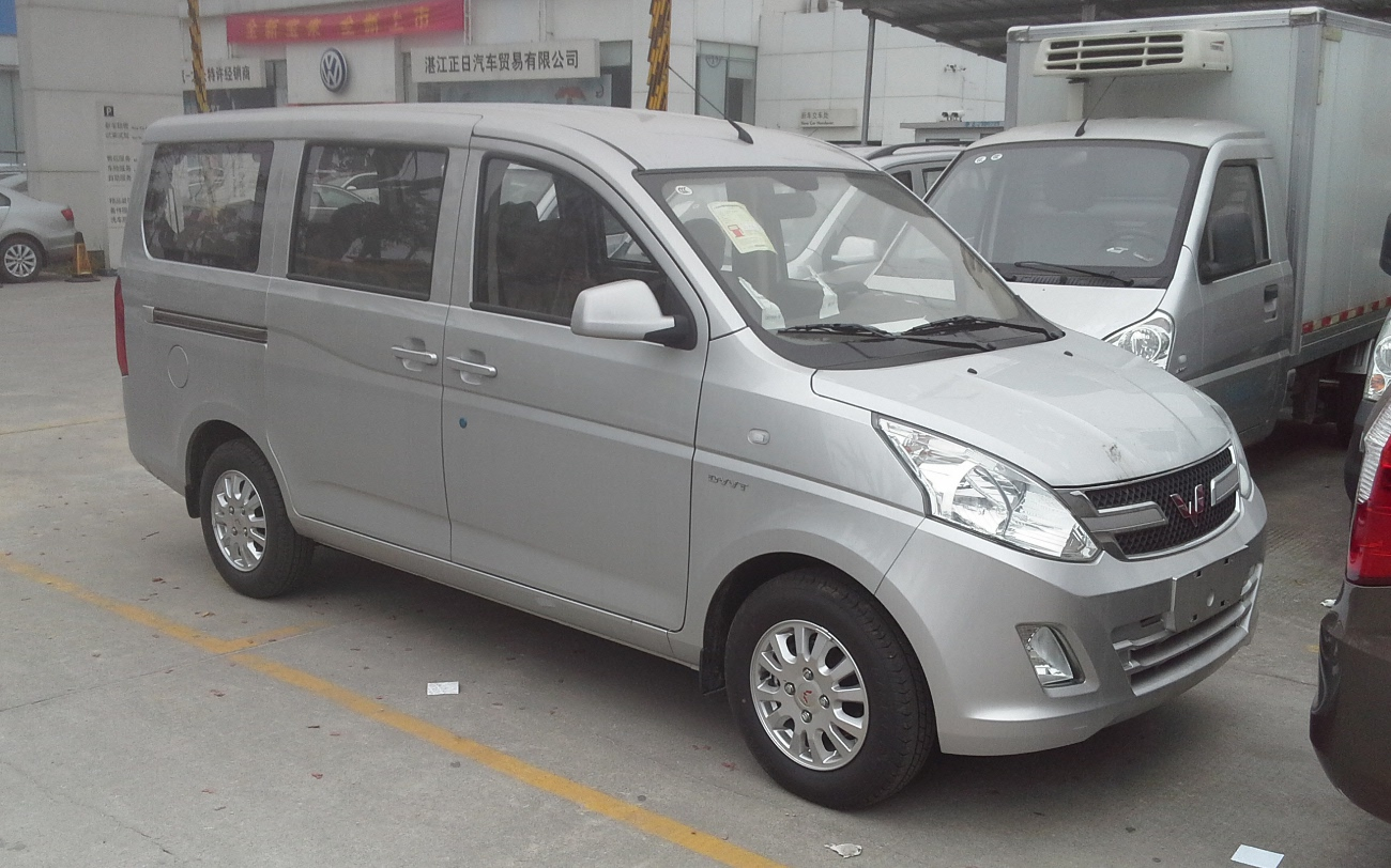 Wuling Hongguang V photographed in Zhanjiang, Guangdong province, China.